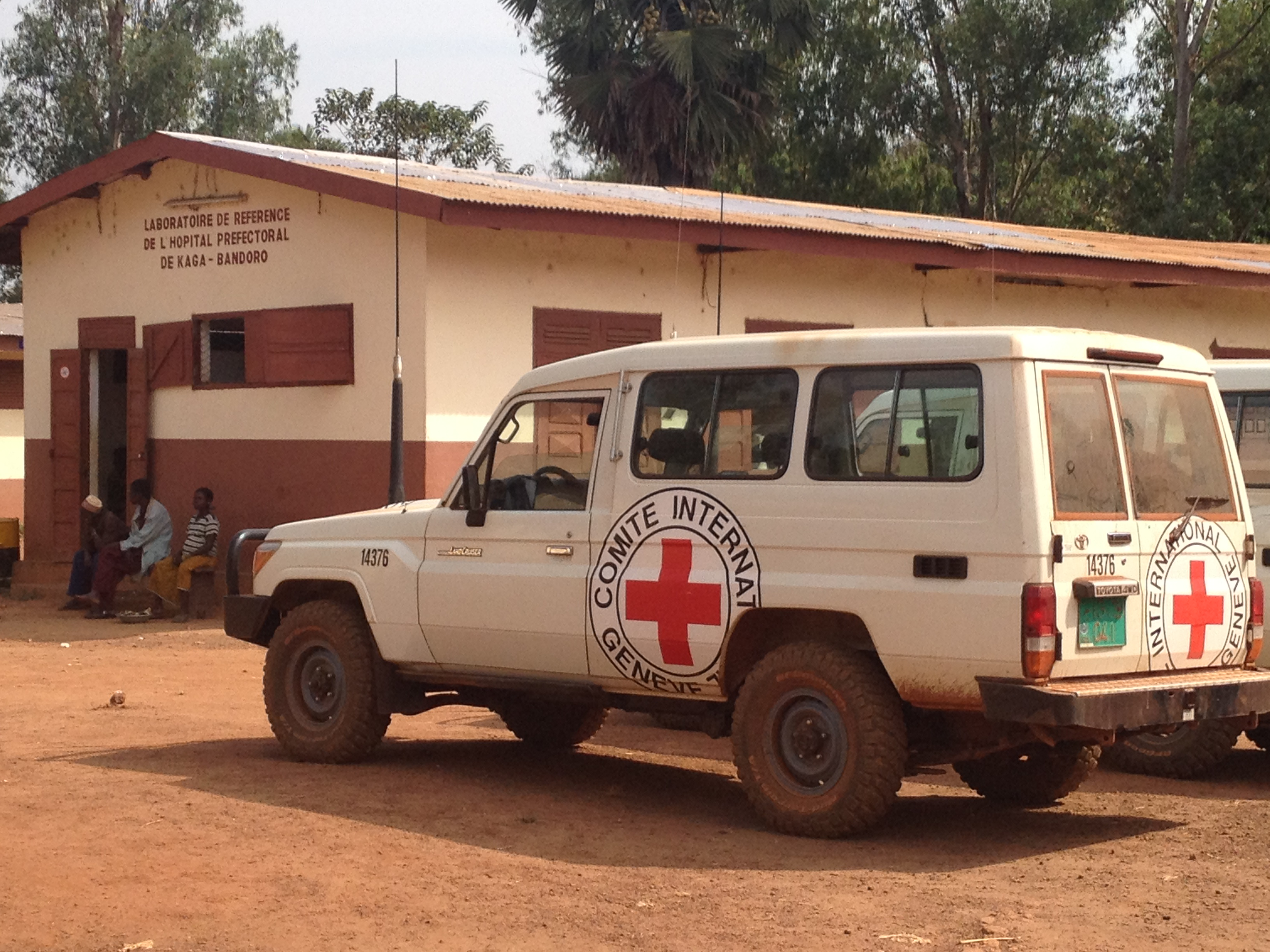 The Red Cross is one of only a handful of aid organisations with the access and set up to help those caught up in the crisis. These vehicles are equipped with radio transmitters to keep in close contact with support teams as they pass through conflict areas. As well as getting staff access to affected areas, these vehicles have helped get people with severe injuries to bigger hospitals in the capital of Bangui. The UK is providing emergency healthcare, clean water, food and logistical support to hundreds of thousands of people across CAR in response to the severe escalation in the humanitarian crisis. For full details of how the UK is helping, please Picture: Juliette Humble/DFID